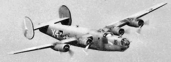 Consolidated B-24J-140-CO Liberator 42-110141 492nd BG, 859th BS Transferred to 458th BG, 752rd BS. Modified as an Azon plane (radio-controlled bomb), retained the name "Breezy Lady" painted on port side and "Superman" was later added to the starboard side. Later the "Breezy Lady" side was renamed "Marie". Crash landed in England Jul 24, 1944.